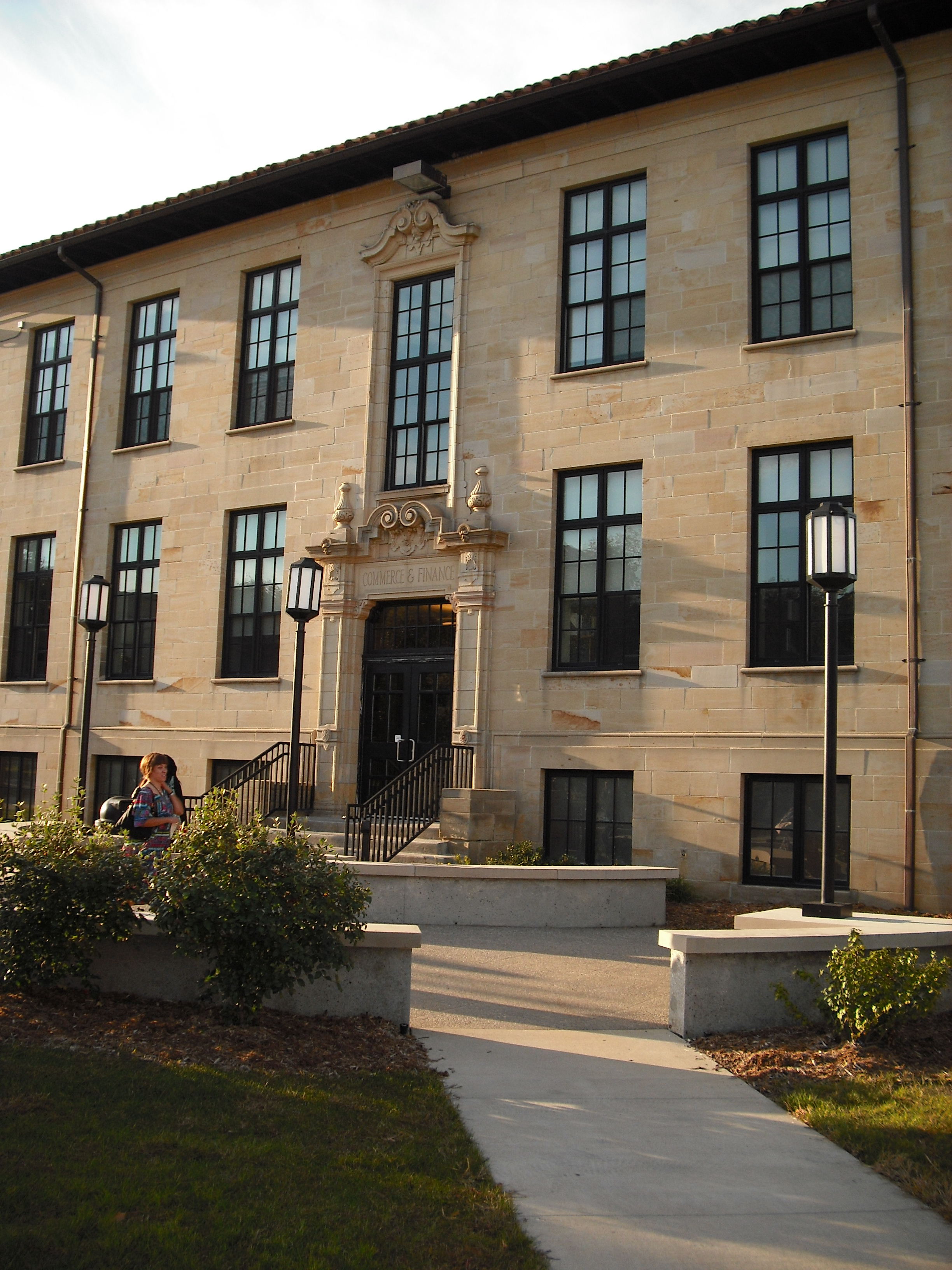 University of Detroit Mercy College of Business Administration